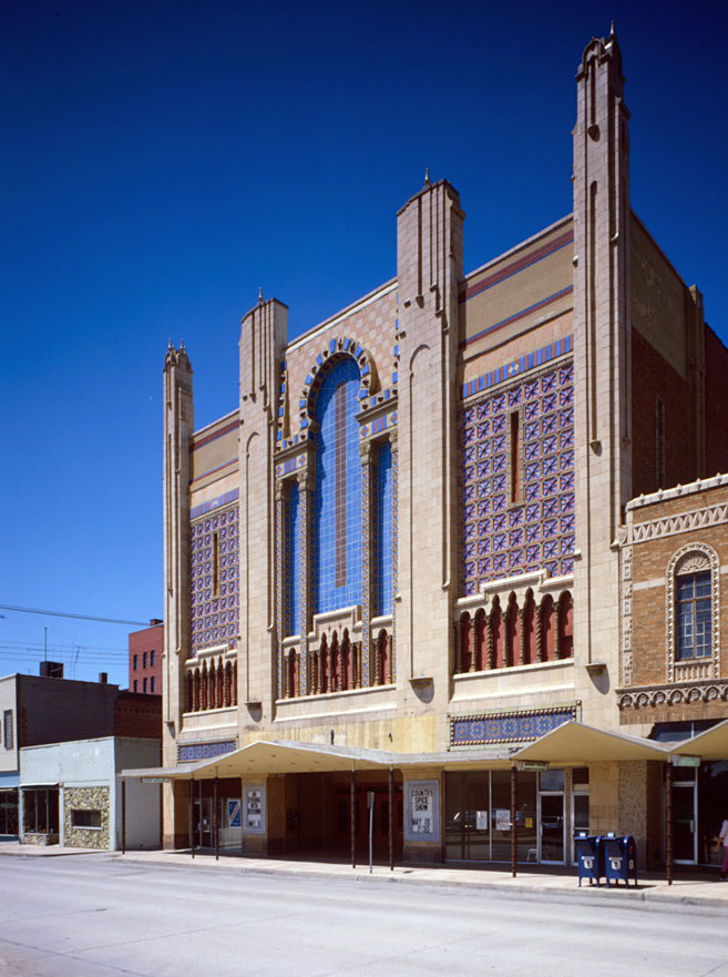 Missouri Theatre, St. Joseph, Missouri. Image courtesy of Historic American Buildings Survey—HABS.